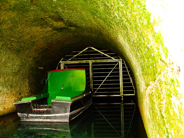 I took this April 2006